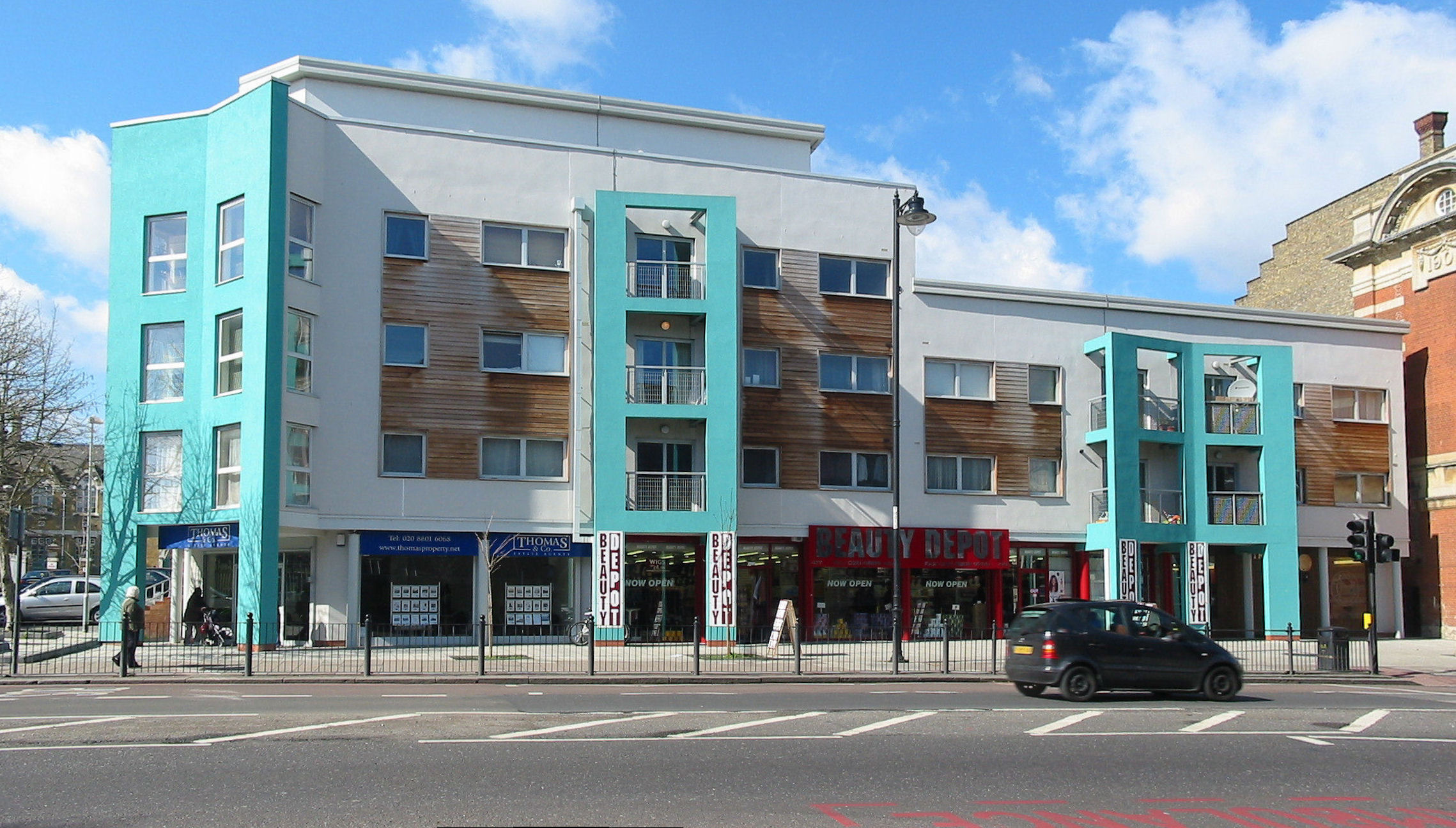 19 March 2007. New flats and shops High Road Tottenham N17. Would be better without the tacky maroon-and-white posters.